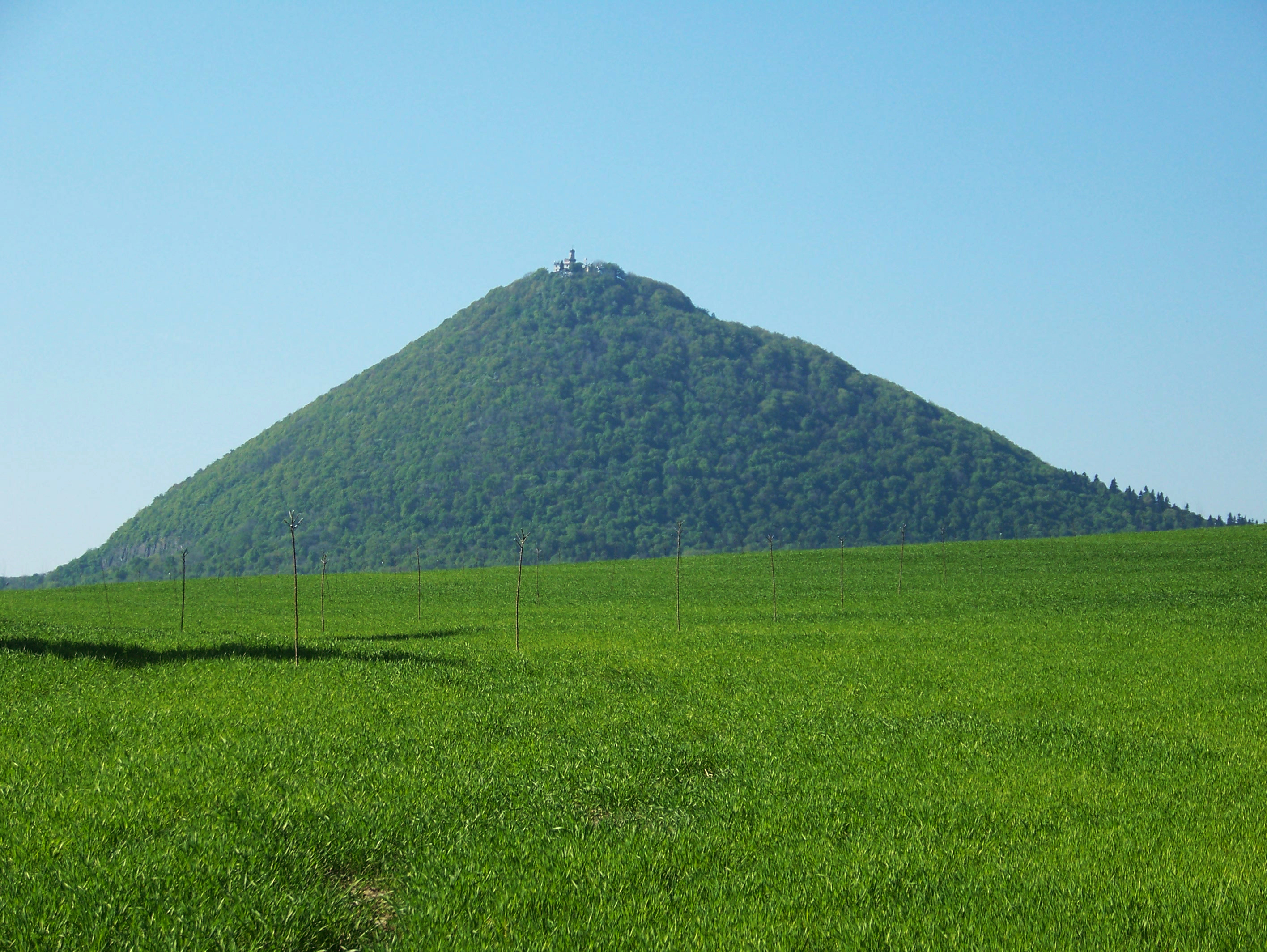 Czech Republic, Bohemian Uplands (České Středohoří): Mount Milešovka seen from the Village Milešov.